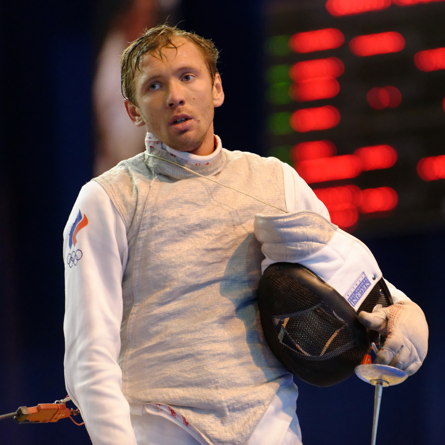 Artem Sedov during his 1/16 final at the Challenge international de Paris 2013 against Artur Akhmatkhuzin.